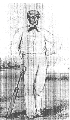 Drawing of Julius Caesar (cricketer). This picture is part of a lithograph that was published in 1858.